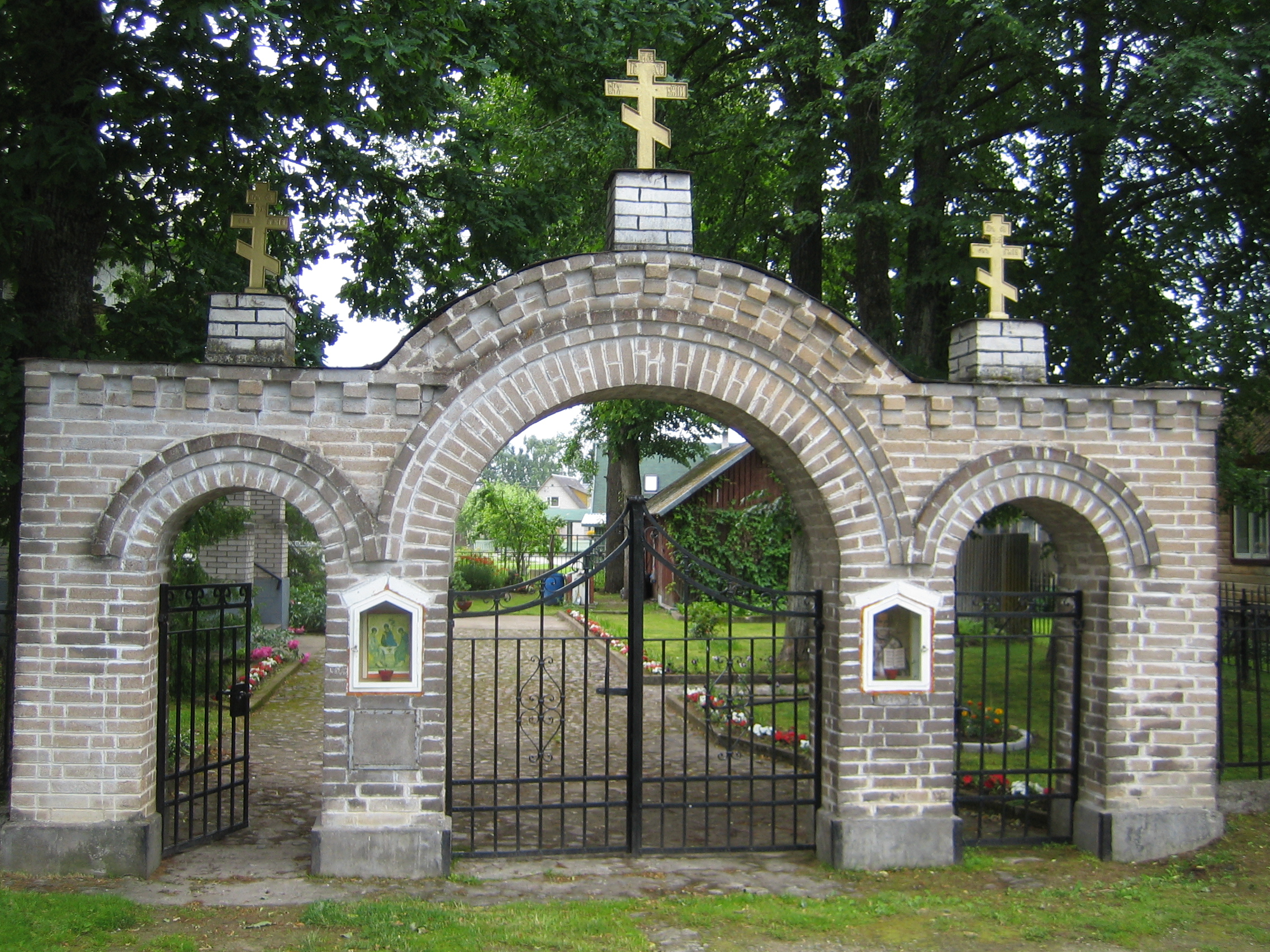 Old Believers Church Gate in Mustvee, Estonia (1935)